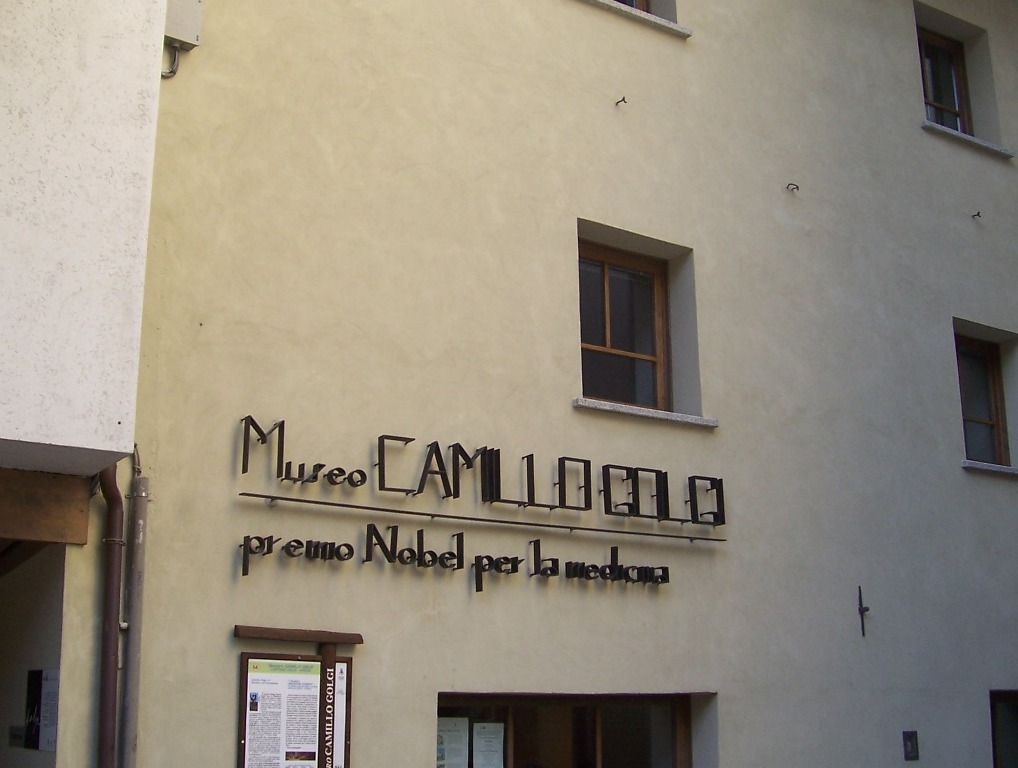 Museum, Corteno Golgi, Val Camonica